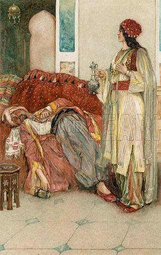 The Story of Aladdin. Illustration for The Arabian Nights (Ernest Nister, c 1895).